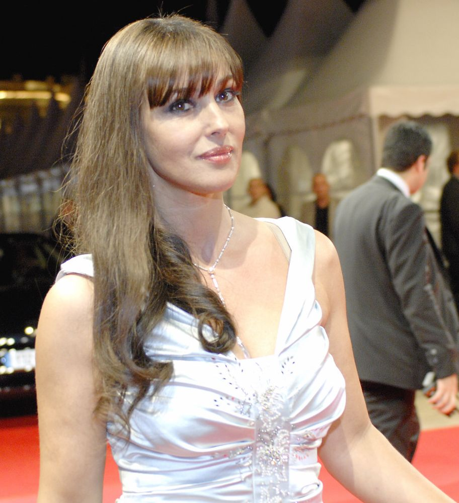 Monica Bellucci at the 33rd Deauville American Film Festival in 2007 at the Centre international de Deauville